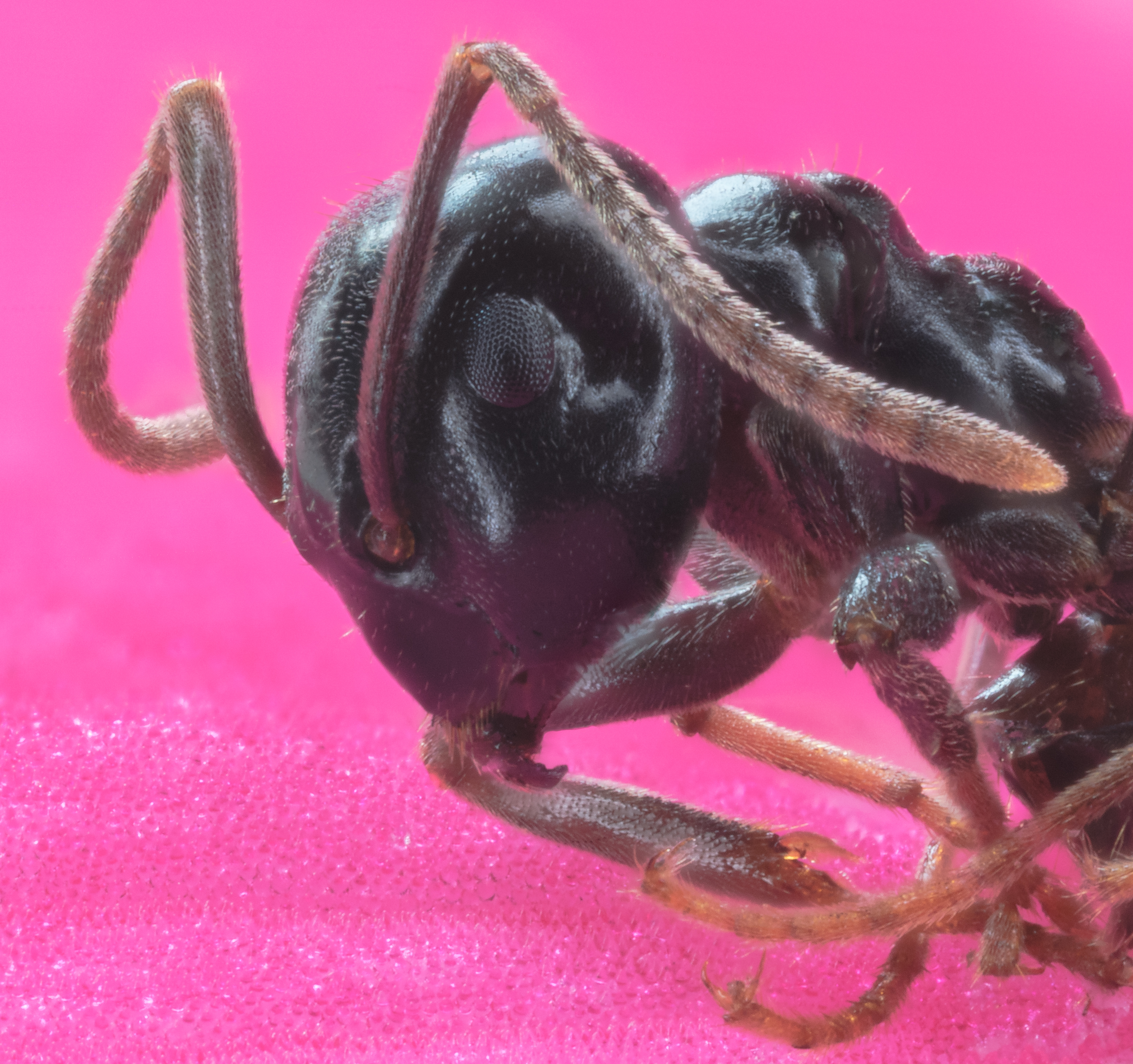 Pharaoh ant (Monomorium pharaonis), Hartelholz, Munich, Germany